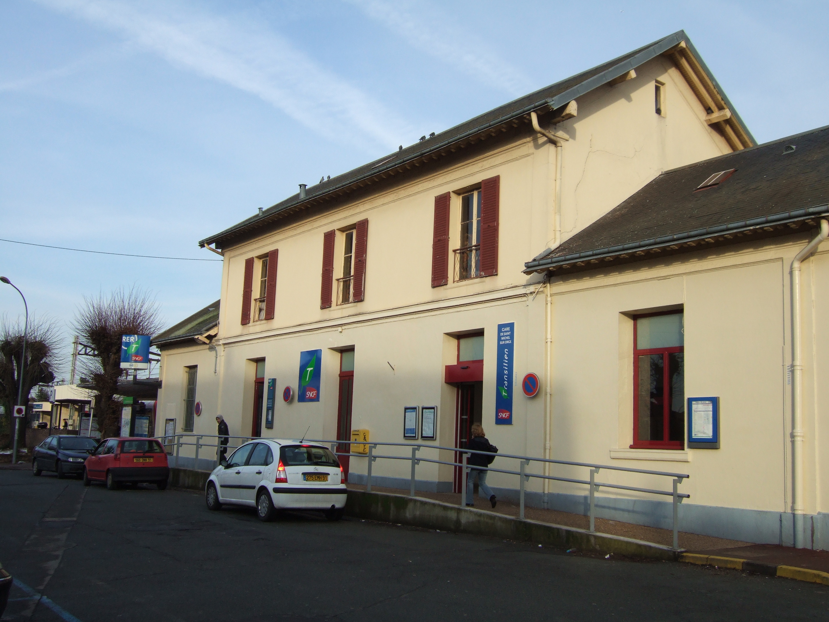 Railway Station of Saint-Michel-sur-Orge (France). Platform to Paris.